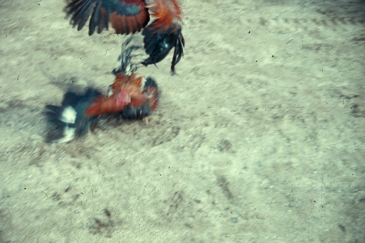 I quickly snapped this picture of two game cocks fighting along a road in rural Thailand, sometime in the summer of 1966.